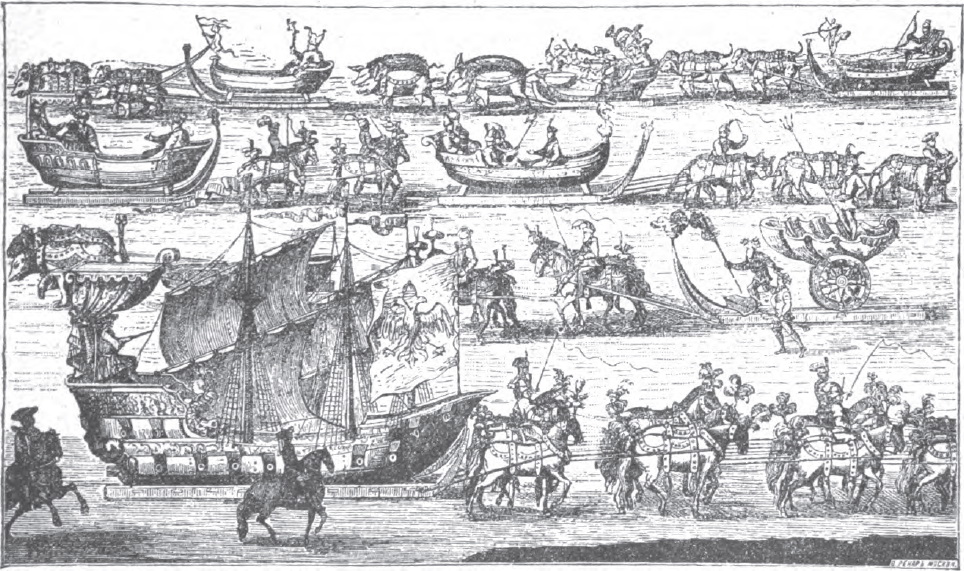 Treaty of Nystad celebration in Moscow